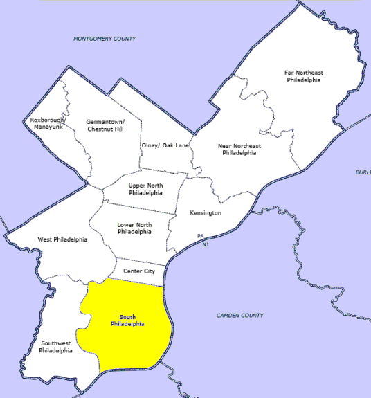 Map of Philadelphia County highlighting South Philadelphia